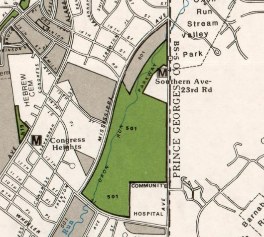 This is a piece of a larger 1989 map of the National Park System properties in Washington, DC showing the Oxon Run Parkway.